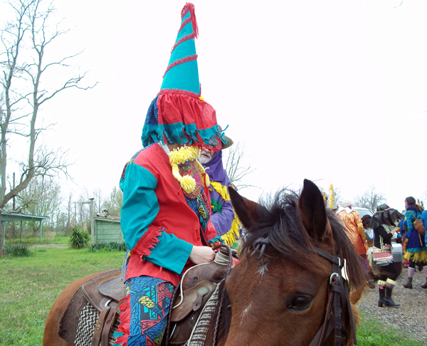 Participants of the 2011 Faquetaigue Courir de Mardi Gras in Savoy, La on horseback. The figure wears the traditional capuchon, a pointed hat meant to mock the nobility.